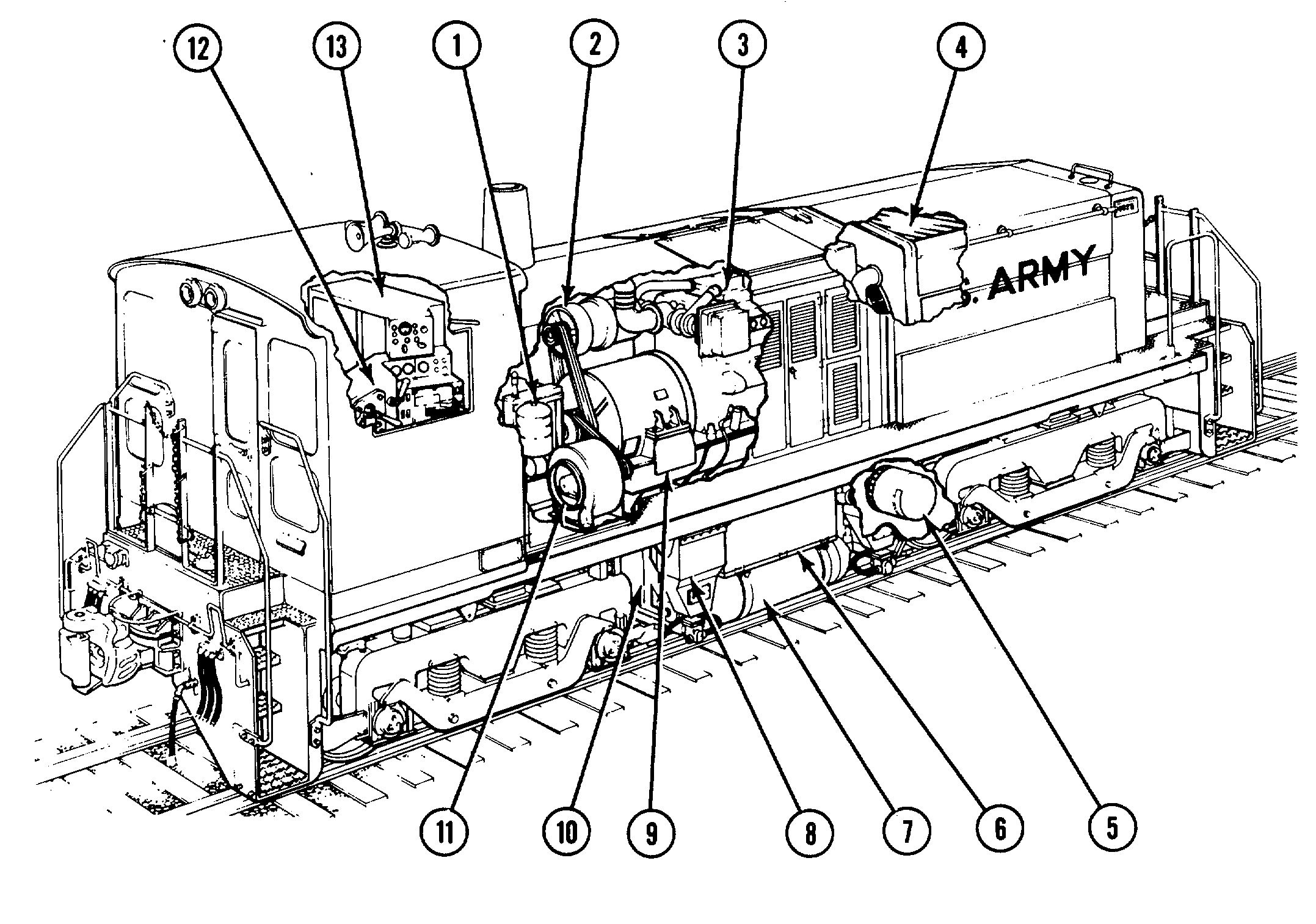 Exploded diagram of the locomotive.